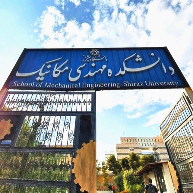 Mechanical engineering department